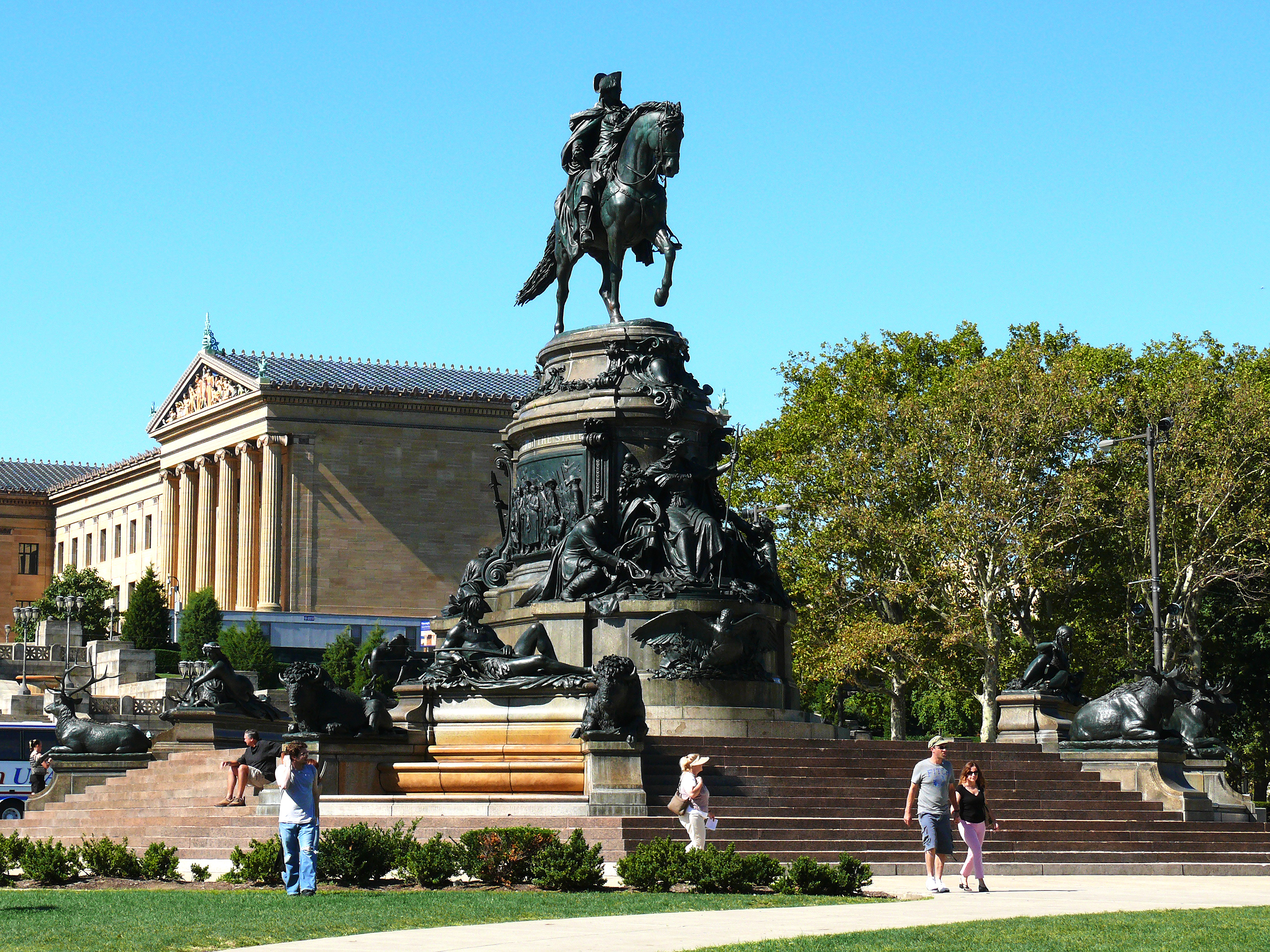 The Washington Monument, sculpted by Rudolf Siemering, in Eakins Oval, just in front of the stairs of the Philadelphia Museum of Art, Philadelphia, PA, USA.Photo taken with a Panasonic Lumix DMC-FZ50.